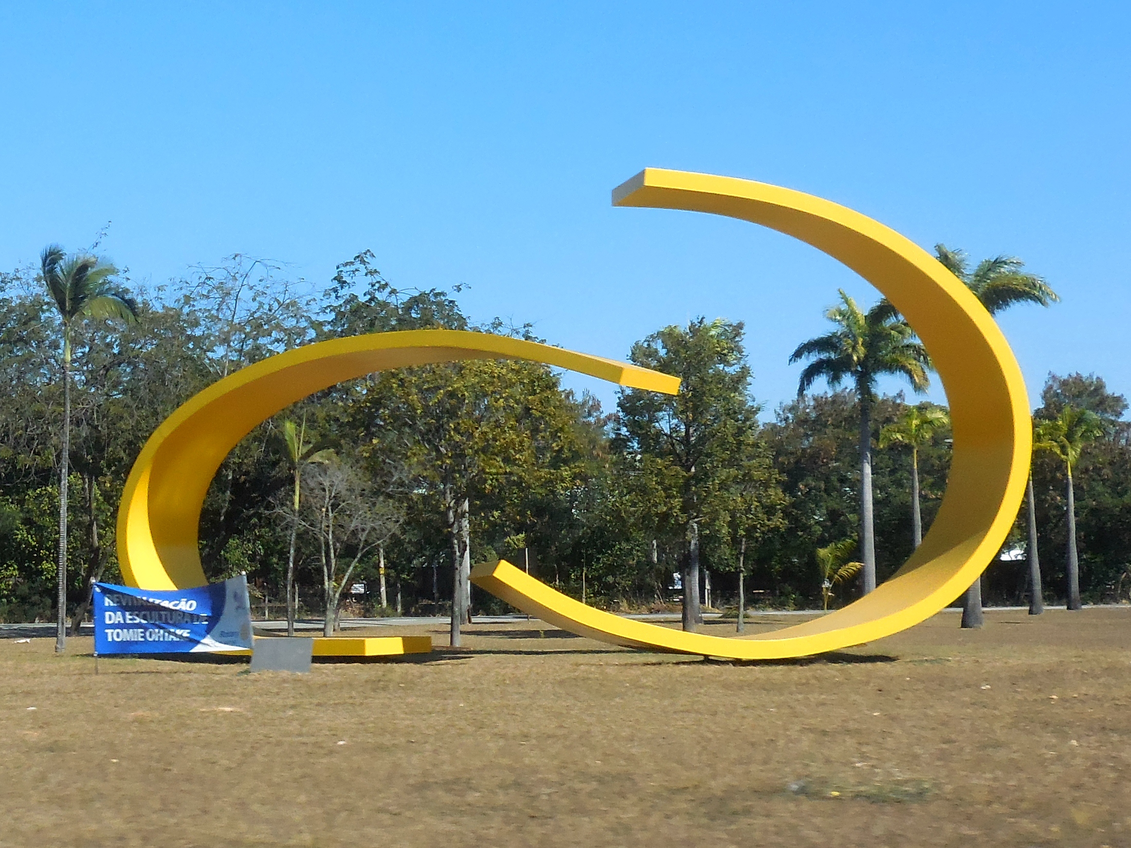 View of the Tomie Ohtake monument, in Ipatinga, Minas Gerais, Brazil.